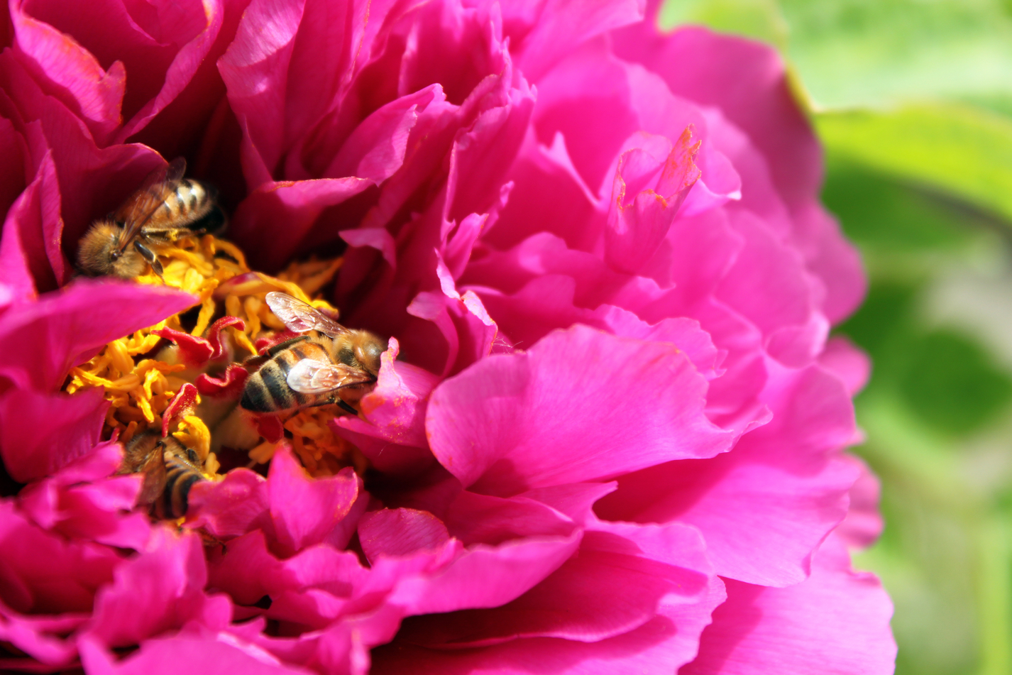 Bees and a peony corolla, at Beijing Fragrant Hills Park